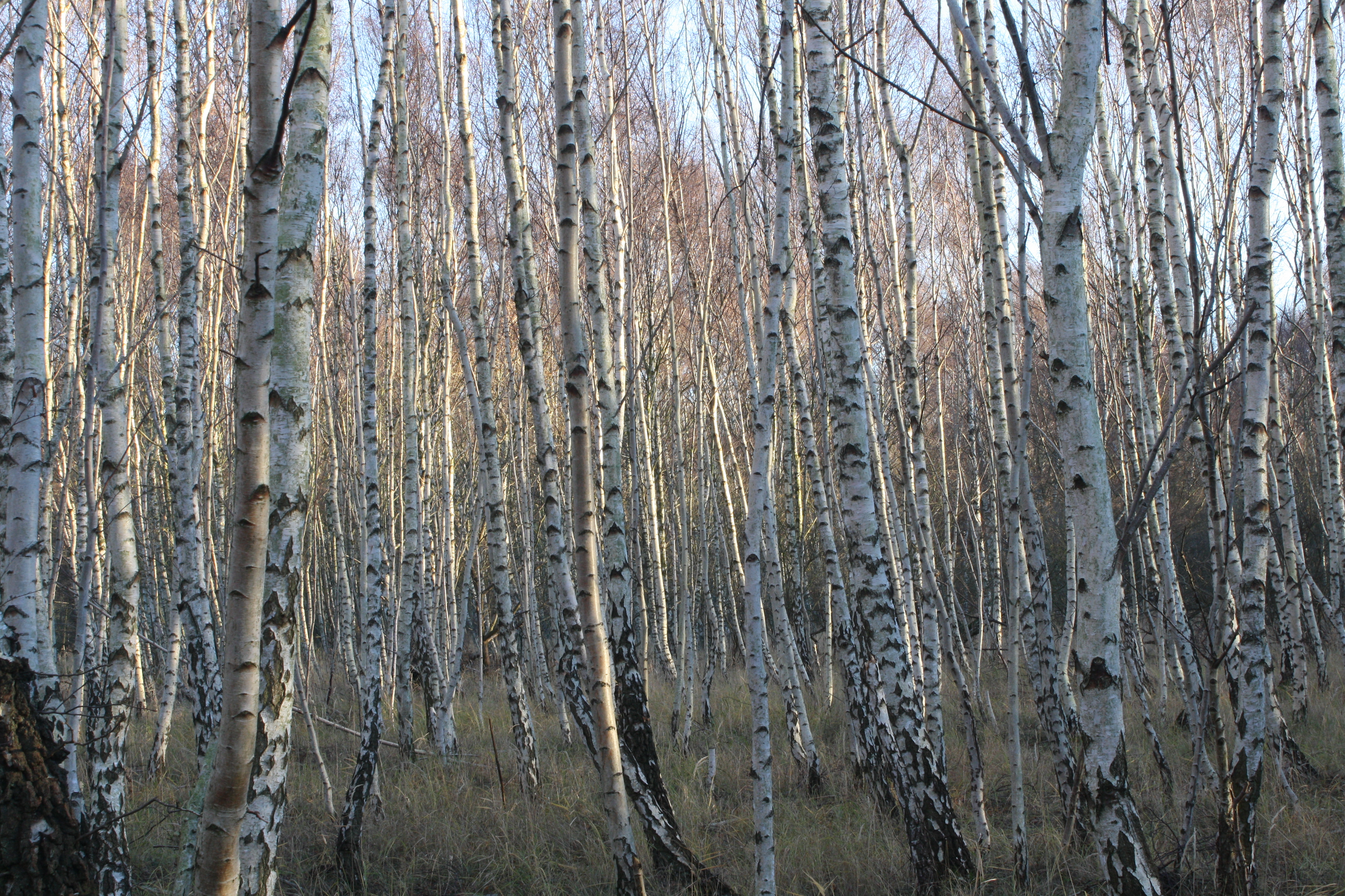 Birch trees in the forrest known as Pinseskoven.